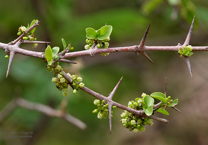 Canthium coromandelicum - Coromandel Canthium • Marathi: किरमा Kirma, Kadbar • Tamil: Nallakkarai, Kudiram, Sengarai • Malayalam: Kantankara, Niruri, Serukara • Telugu: Sinnabalusu, Balusu • Kannada: Karemullu, Ollepode • Oriya: Tutidi • Konkani: Kayili • Sanskrit: Nagabala, Gangeruki in Keesara, Rangareddy district, Andhra Pradesh, India.